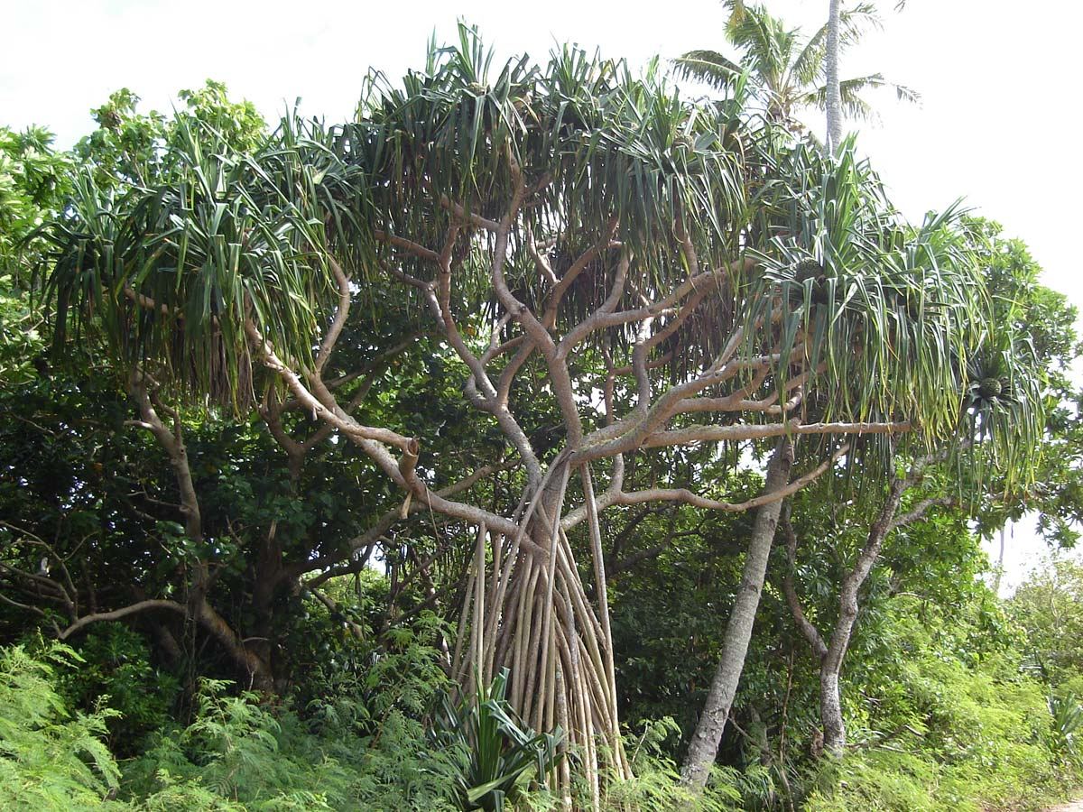 Pandanus tectorius, (fā in Tonga), roots & branche